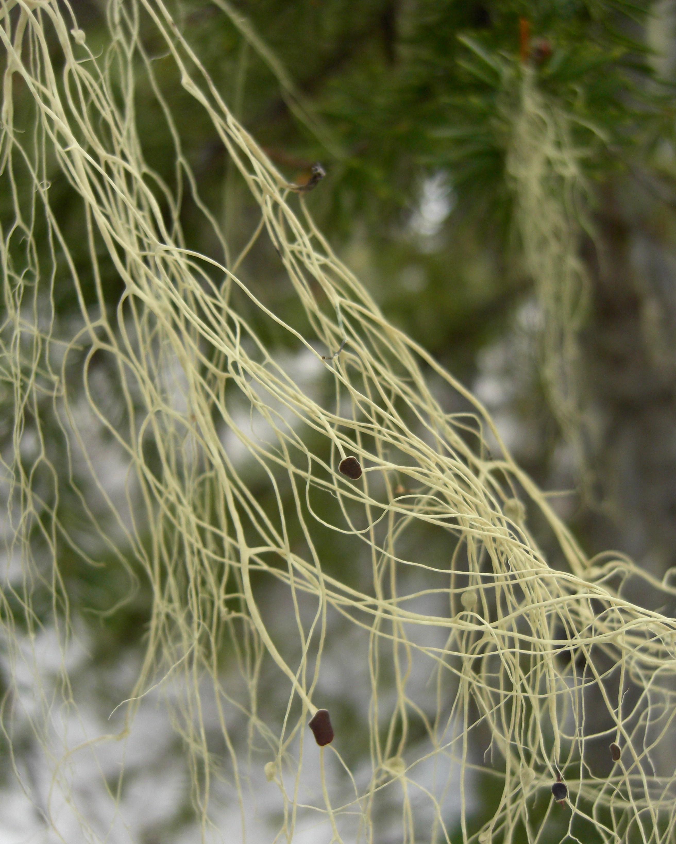 Alectoria sarmentosa ( Ach.) Ach. Thompson Region, Wells Gray Provincial Park, British Columbia, Canada Covering conifers in deep/sheltered forests at medium to high elevation.